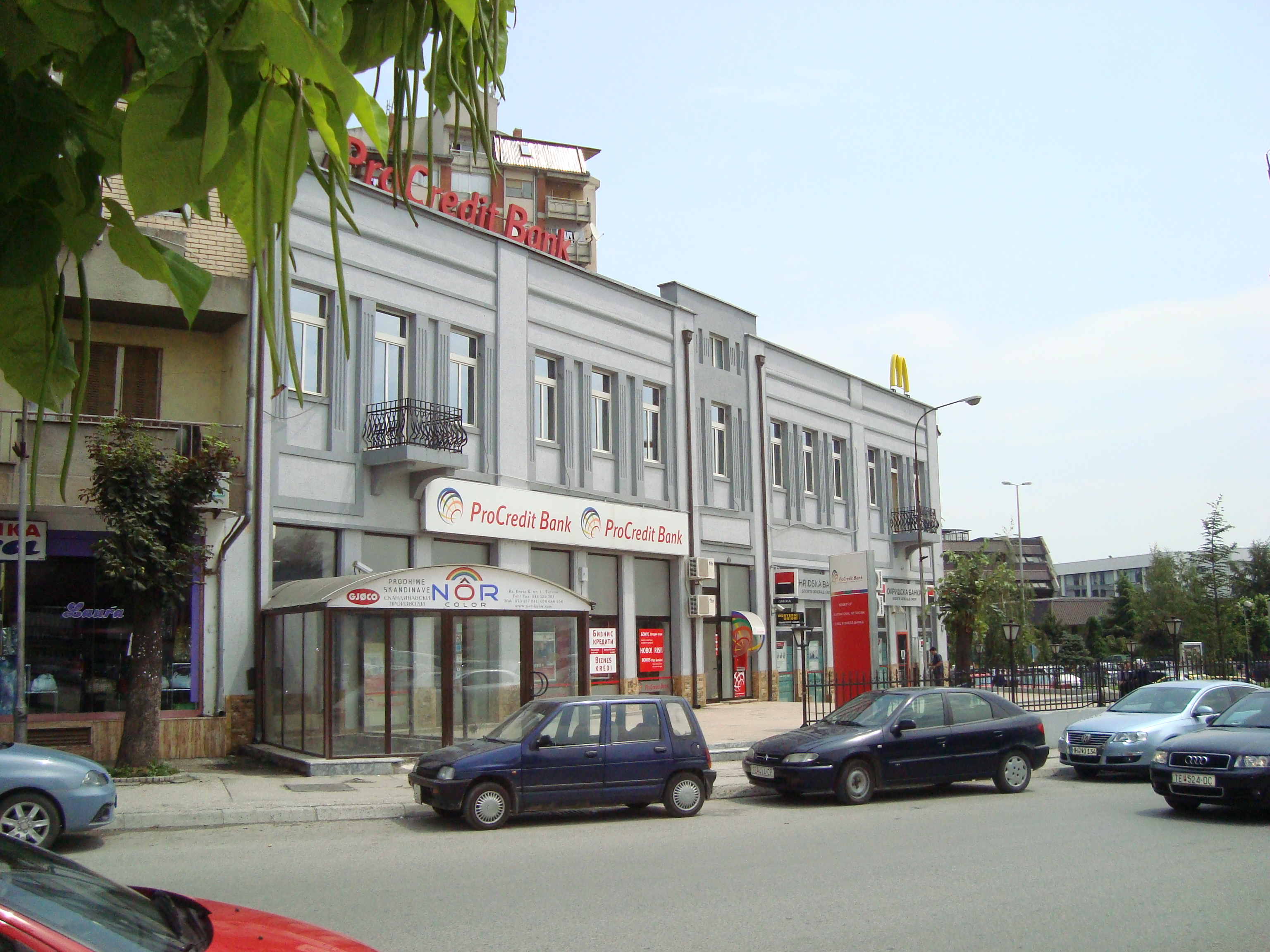 Bank in Tetovo, Macedonia.